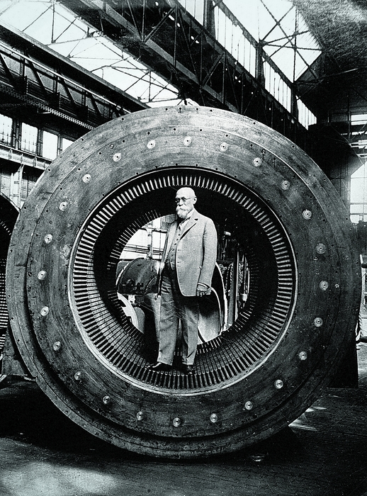 Otto Bláthy in a Ganz turbogenerator (1904)